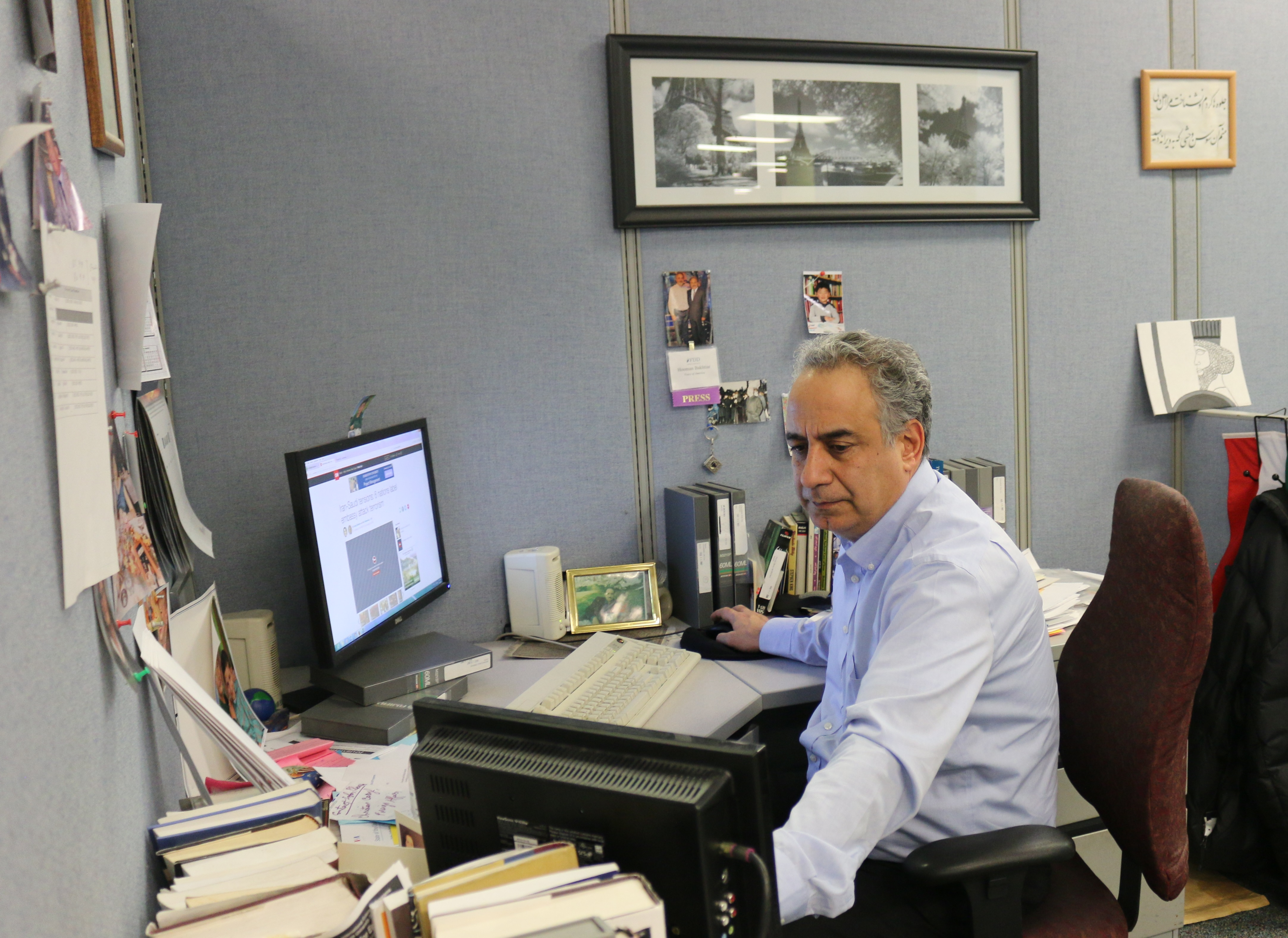 Hooman Bakhtiar - One of the producers of Voice of America Persian TV, January 2016. Photo: Persian Dutch Network